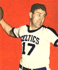 Professional basketball player Jack Garfinkel